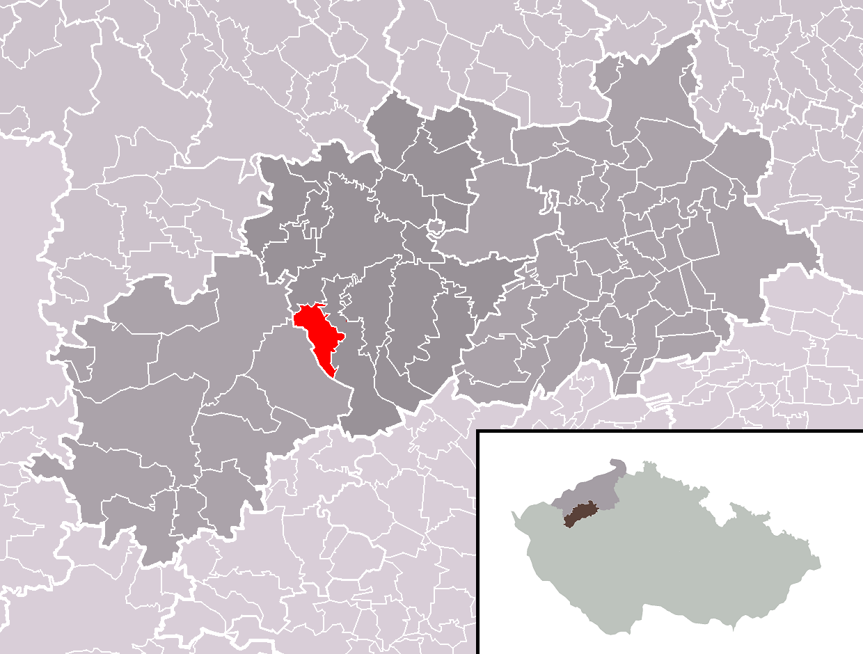 Location of Libořice municipality within Louny District and administrative area of Žatec as a Municipality with Extended Competence.